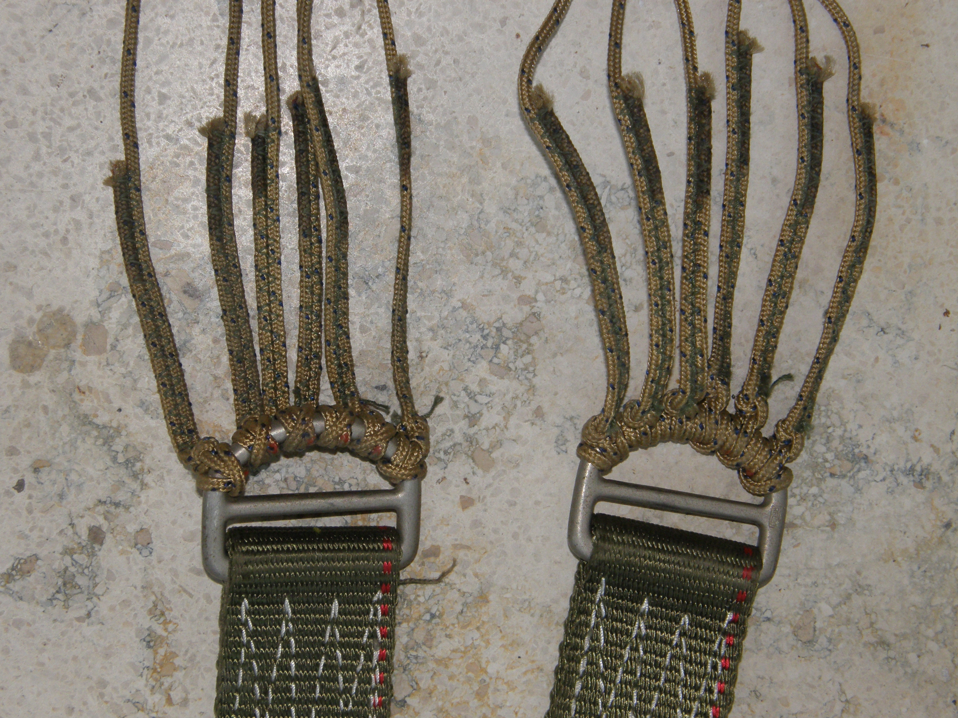 ParachutelineKnot